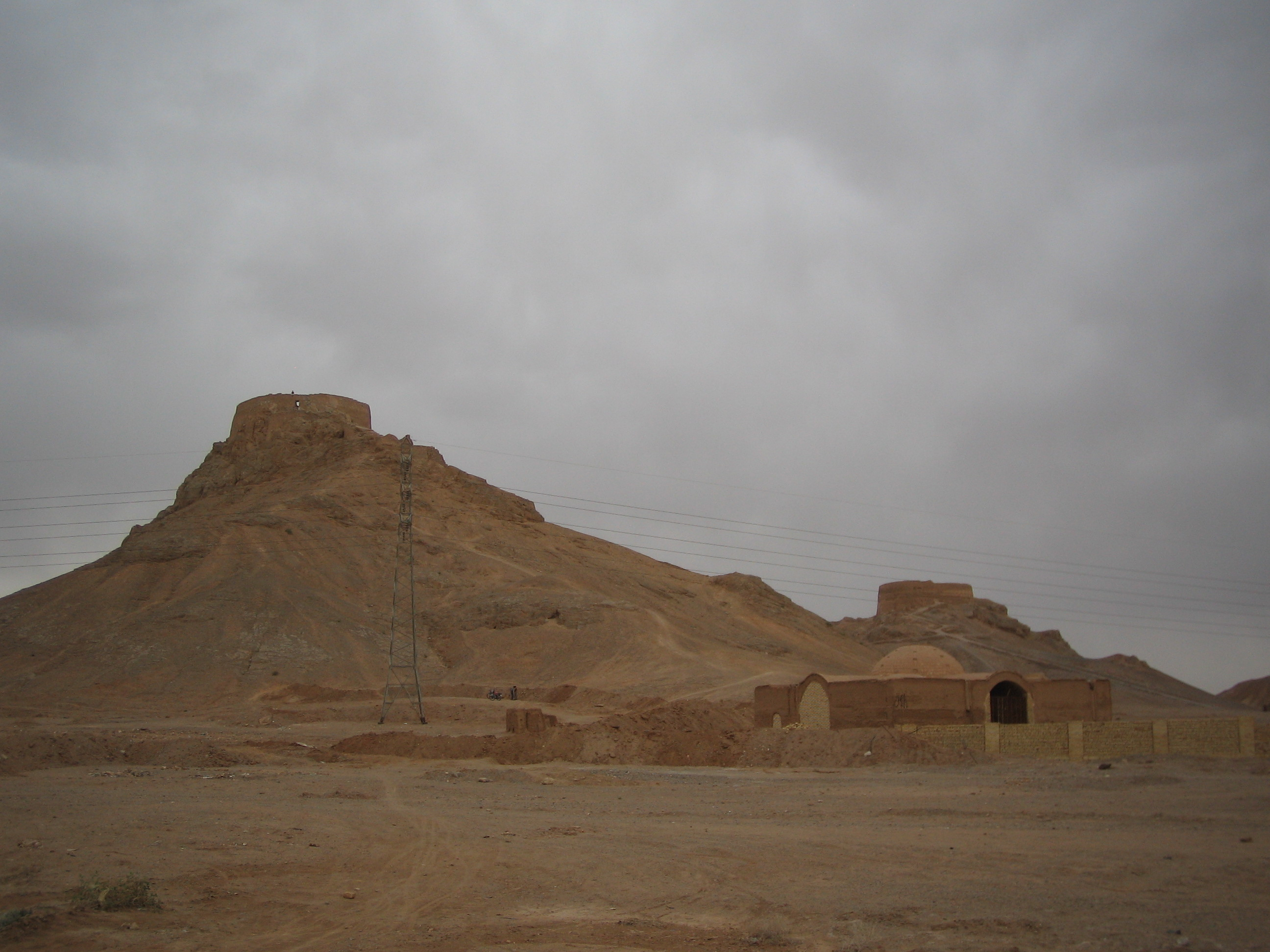 This is where Zoroastrians put their dead. (Towers of silence in Yazd, Iran. Place where the zoroastrians have their sky burials.)